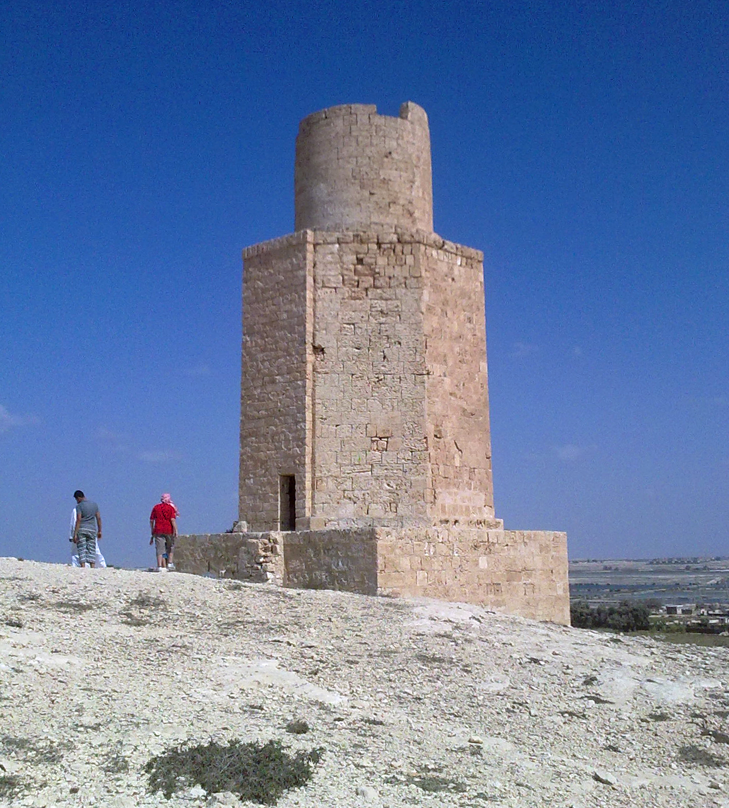 Abusir pharaohs